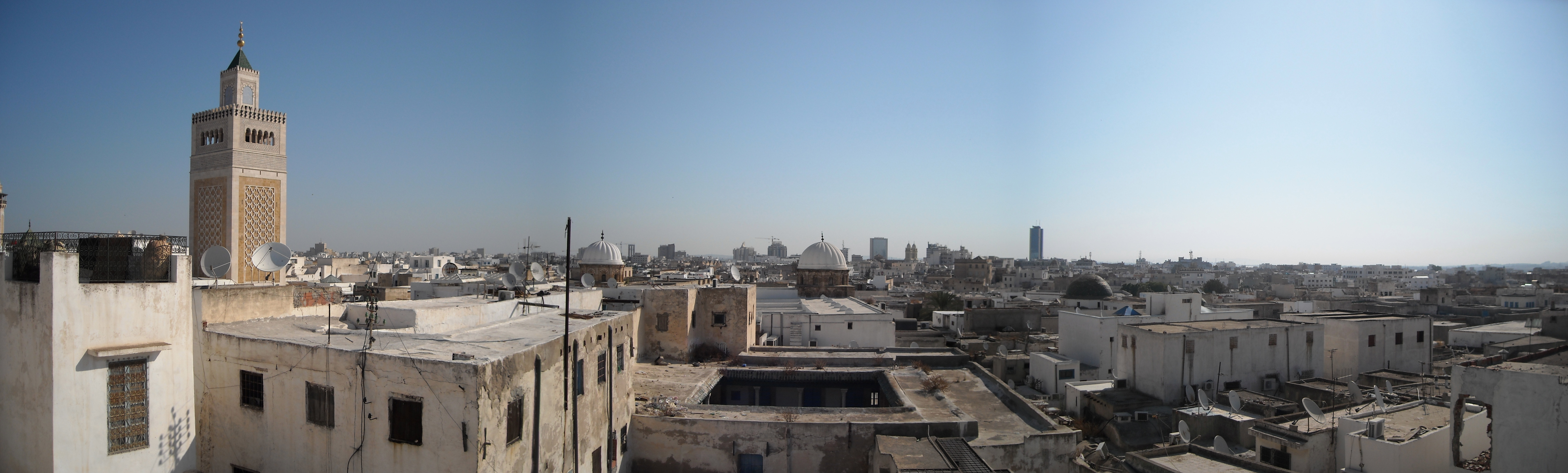 Tunis panorama